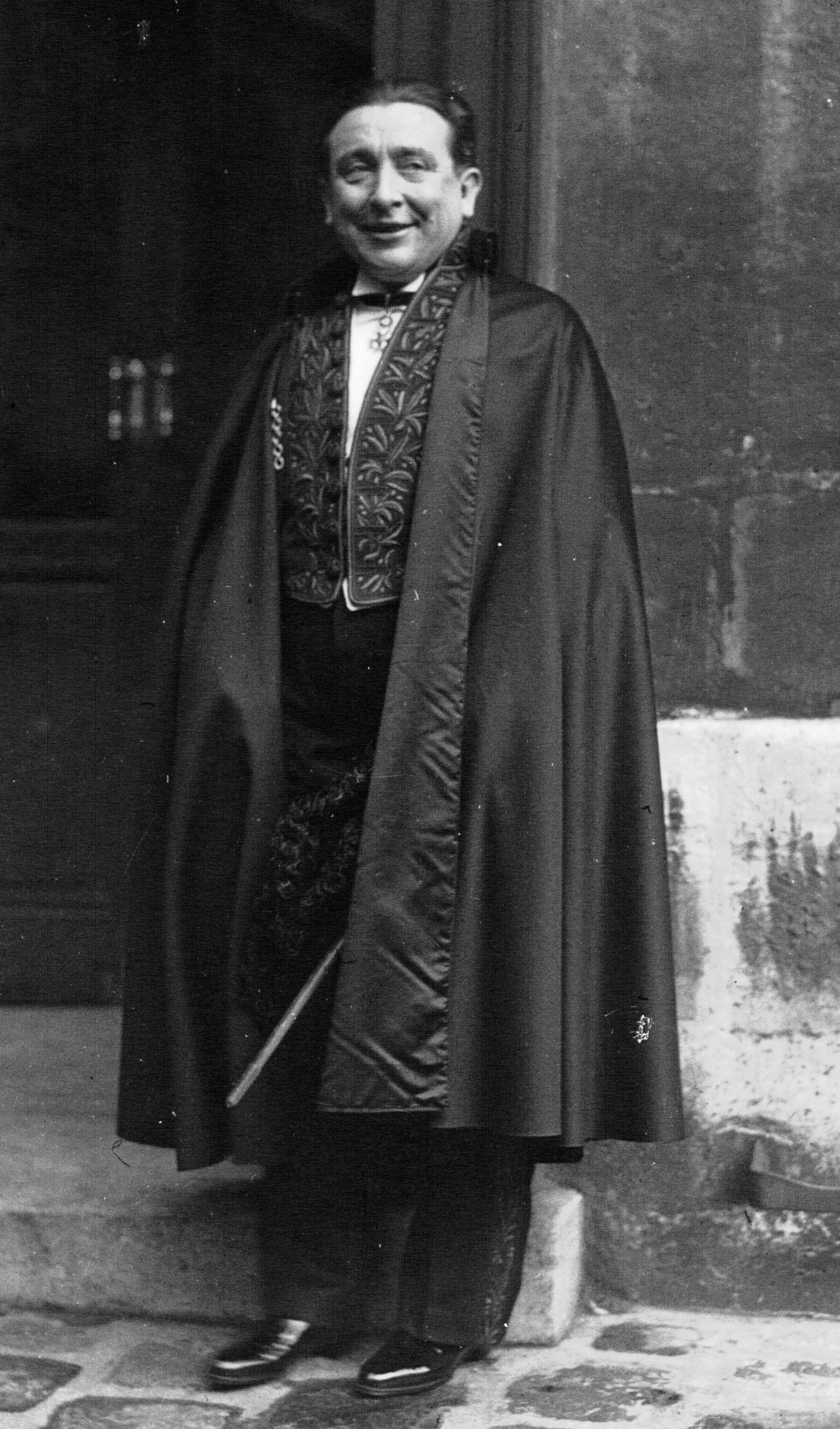 French novelist Pierre Benoit (1886-1962) on his reception at the Académie française in 1932 wearing the ceremonial grand habit vert and cape.